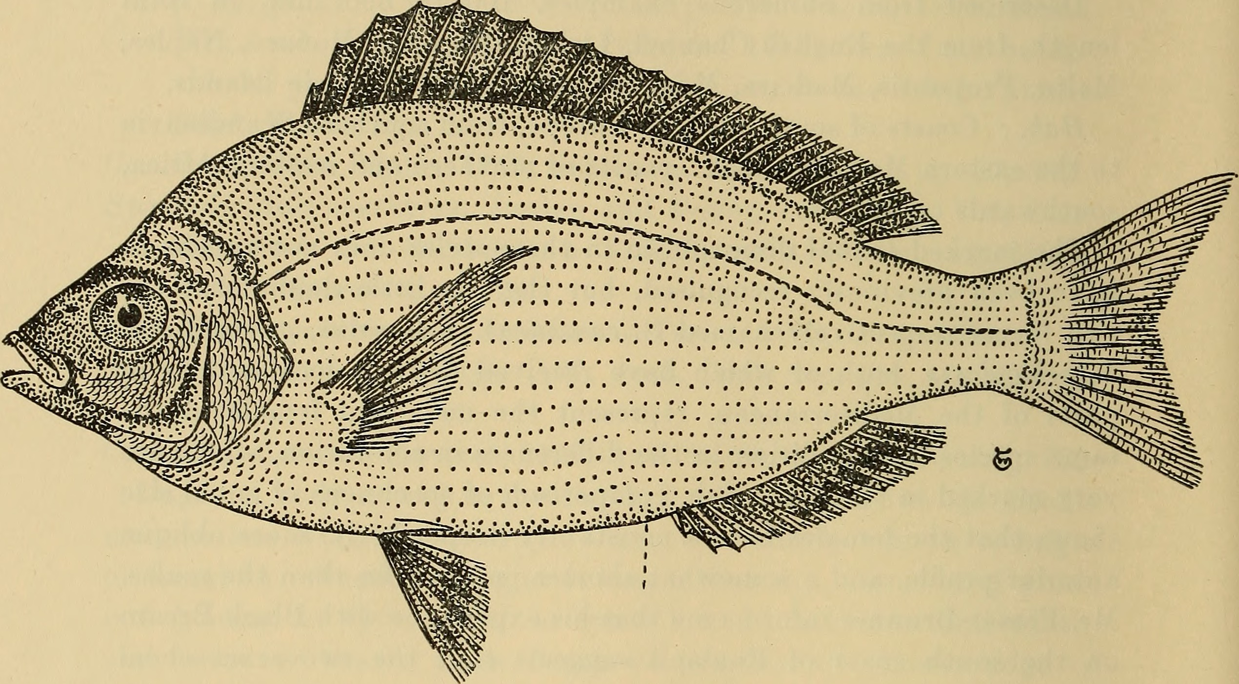 FIG. 1. - Spondyliosoma emarginatum. x About 2/5. male. Title: Annals of the South African Museum = Annale van die Suid-Afrikaanse Museum Year: 1898 (1890s) Authors: South African Museum Subjects: Natural history Publisher: Cape Town : The Museum Text Appearing Before Image: 10 Annals of the South African Museum. Pachymetopon grande, Fowler, 1929, Ann. Natal Mus., vol. vi, p. 259; Fowler, 1933, Bull. U.S. Nat. Mus., 100 (12), p. 214. Spondyliosoma microlepis, Fowler, 1933, t.c. p. 183. Spondyliosoma emarginata, Fowler, 1933, t.c. p. 183. Depth of body 21- to 2f in the length, length of head 3 to 3J. Profile in smaller specimens nearly evenly convex, but with a slight emargination above eyes, in larger specimens nearly straight to above eyes, thence convex to origin of dorsal. Snout as long as or a little shorter than eye, diameter of which is 3 (young) to nearly 4 in length of head, 1 to 1\ in interorbital width, and 2 to 2f times depth of Text Appearing After Image: Fig. 2.—Spondyliosoma ^marginatum, x About f. $. praeorbital. Lower edge of praeorbital with a notch which is much shallower in the young. 38 to 50 teeth in outer row of upper jaw, 42 to 54 in outer row of lower jaw. 15 to 17 gill-rakers on lower part of anterior arch. 8 series of scales on cheek; 80 to 92 scales in lateral line, 14 or 15 between origin of dorsal fin and lateral line; scales on upper surface of head extending forward to a point behind middle of eye. Dorsal XI 11-13; 4th or 5th spines longest, length 14 to nearly 3 (generally about twice) in that of head; first soft ray a little longer than last spine. Anal III 10; 2nd spine shorter than 3rd and twice or more than twice as long as first; 3rd spine § to f length of longest dorsal spine. Pectoral with 15 or 16 rays, extending to a little beyond vent, length about equal to that of head. Pelvic